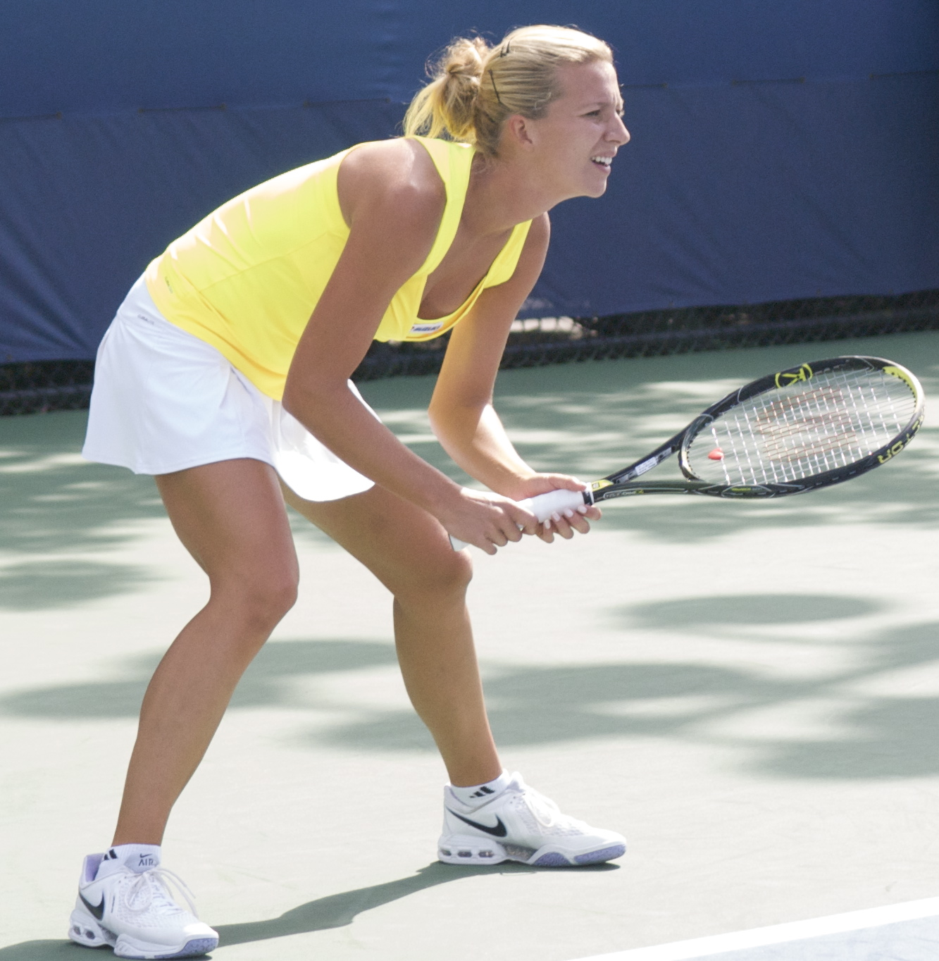 Marta Domachowska at the 2009 US Open